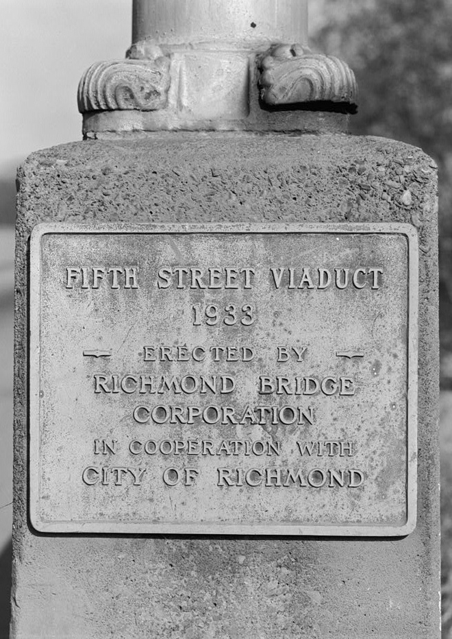 Title: 20. DETAIL, METAL BRIDGE PLATE, AT SOUTH END BLOCK OF EAST PARAPET, FROM SOUTH, RECORDING 1933 CONSTRUCTION OF FIFTH STREET VIADUCT BY RICHMOND BRIDGE CORPORATION IN COOPERATION WITH THE CITY OF RICHMOND - Fifth Street Viaduct, Spanning Bacon's Quarter Branch Valley on Fifth Street, Richmond, Independent City, VA Medium: 4 x 5 in. Reproduction Number: HAER VA,44-RICH,115--20 Rights Advisory: No known restrictions on images made by the U.S. Government; images copied from other sources may be restricted. ( Call Number: HAER VA,44-RICH,115--20 Repository: Library of Congress Prints and Photographs Division Washington, D.C. 20540 USA Place: Virginia -- Independent City -- Richmond Latitude/Longitude: 37.55361, -77.46056 Collections: Historic American Buildings Survey/Historic American Engineering Record/Historic American Landscapes Survey